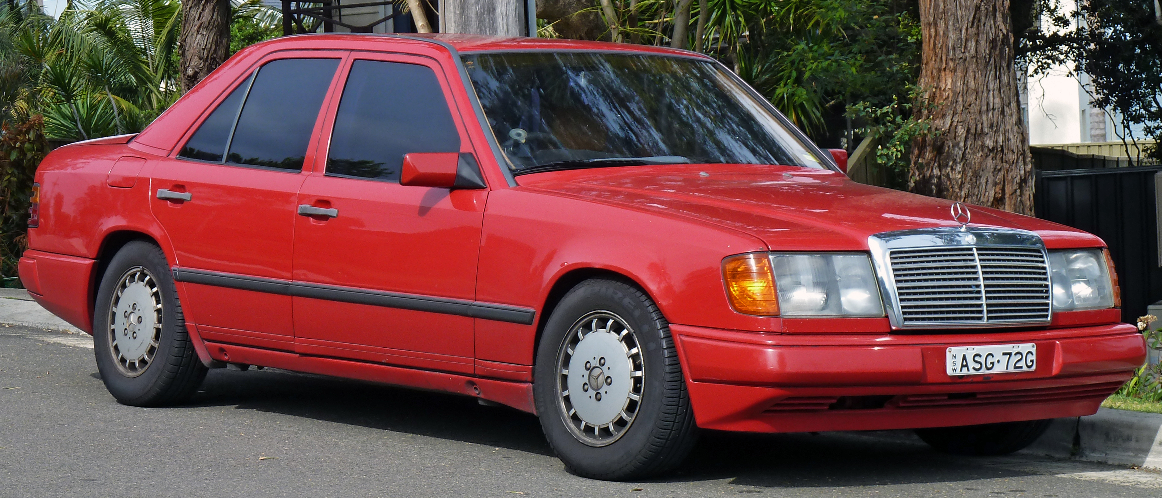 1986 Mercedes-Benz 300 E (W124) sedan. Photographed in Taren Point, New South Wales, Australia. Please note, the appearance has been altered by the painting of the side skirts, bumpers and side-view mirrors red (see this image for comparison).